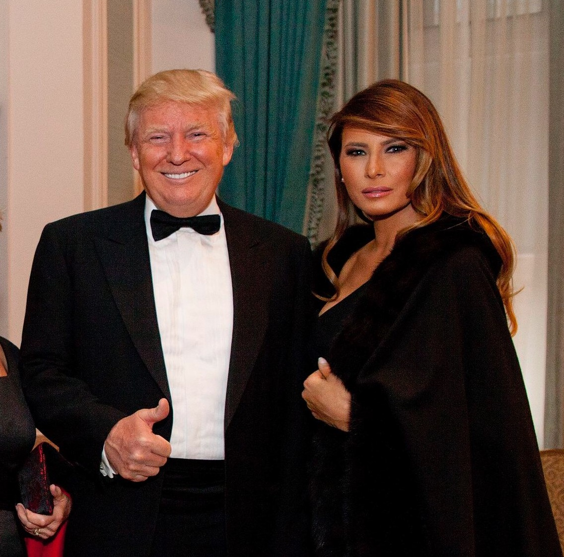 Commandant of the Marine Corps Gen. Joseph F. Dunford Jr., second left, his son Patrick Dunford, left, and wife Ellyn Dunford, center, pose next to Donald J. Trump, second right,and his wife, Melania Tump, during the Marine Corps-Law Enforcement Foundation (MC-LEF) 20th Annual Semper Fidelis Gala at New York, N.Y., April 22, 2015. MC-LEF is a charity that helps children of fallen Marines and federal law enforcement personnel through educational and other humanitarian assistance. (